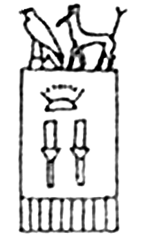 This image depict a hieroglyphic name of Seth-peribsen or Per-ib-sn. It was made through a photocopy of own work and edited.